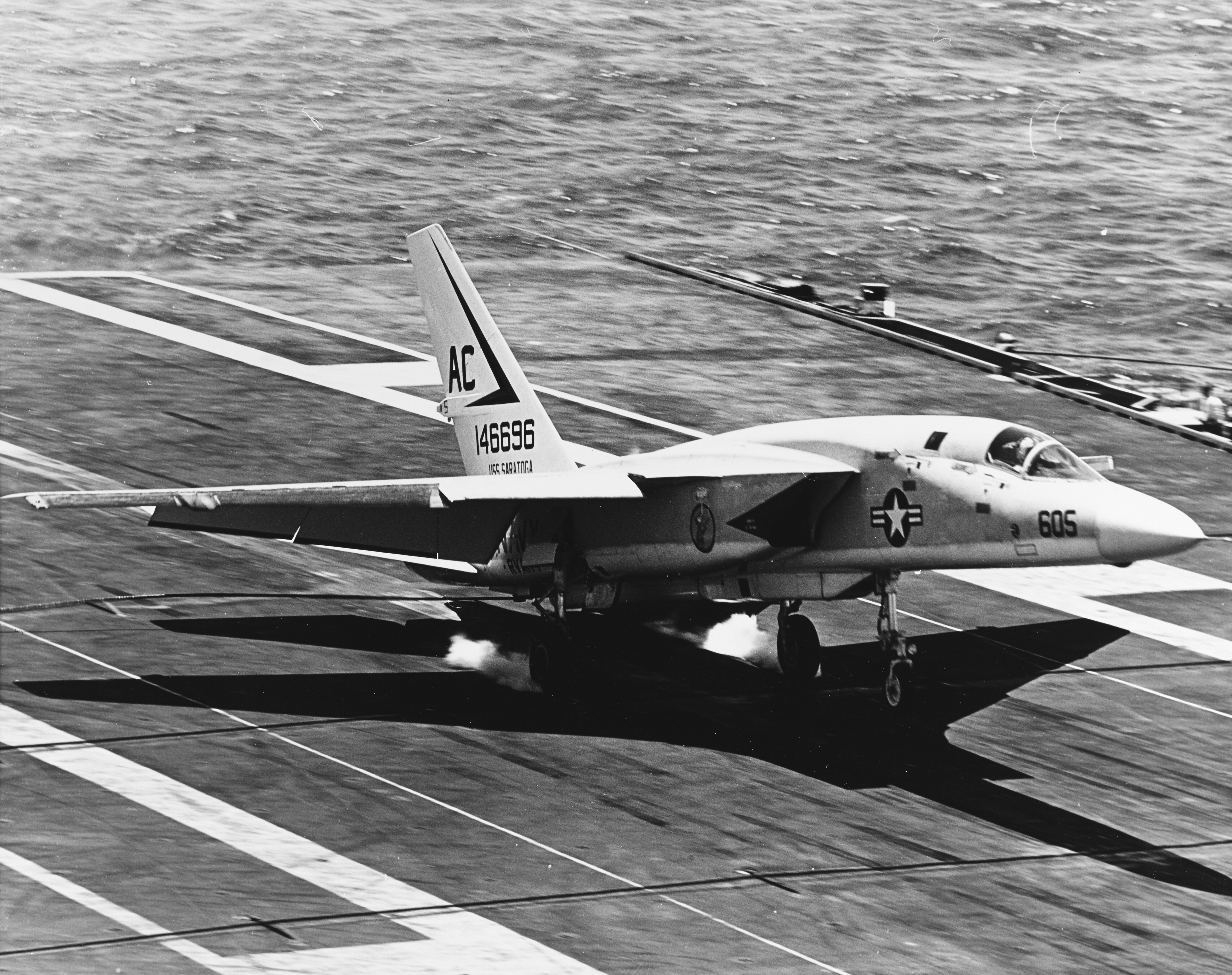 A U.S. Navy North American RA-5C Vigilante (BuNo 146696) from Reconnaissance Heavy Attack Squadron 1 (RVAH-1) "Smokin' Tigers" lands on the aircraft carrier USS Saratoga (CVA-60) in May 1969. RVAH-1 was assigned to Attack Carrier Air Wing 3 (CVW-3) aboard the Saratoga during operations in the Western Atlantic between March and June 1969.